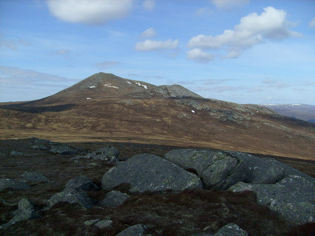 Carn Chuinneag from Carn an Lochan The parent Corbett from one of its Graham Tops. There was a pair of Ptarmigan at the top: the col in front, just a few m lower, had Red Grouse.